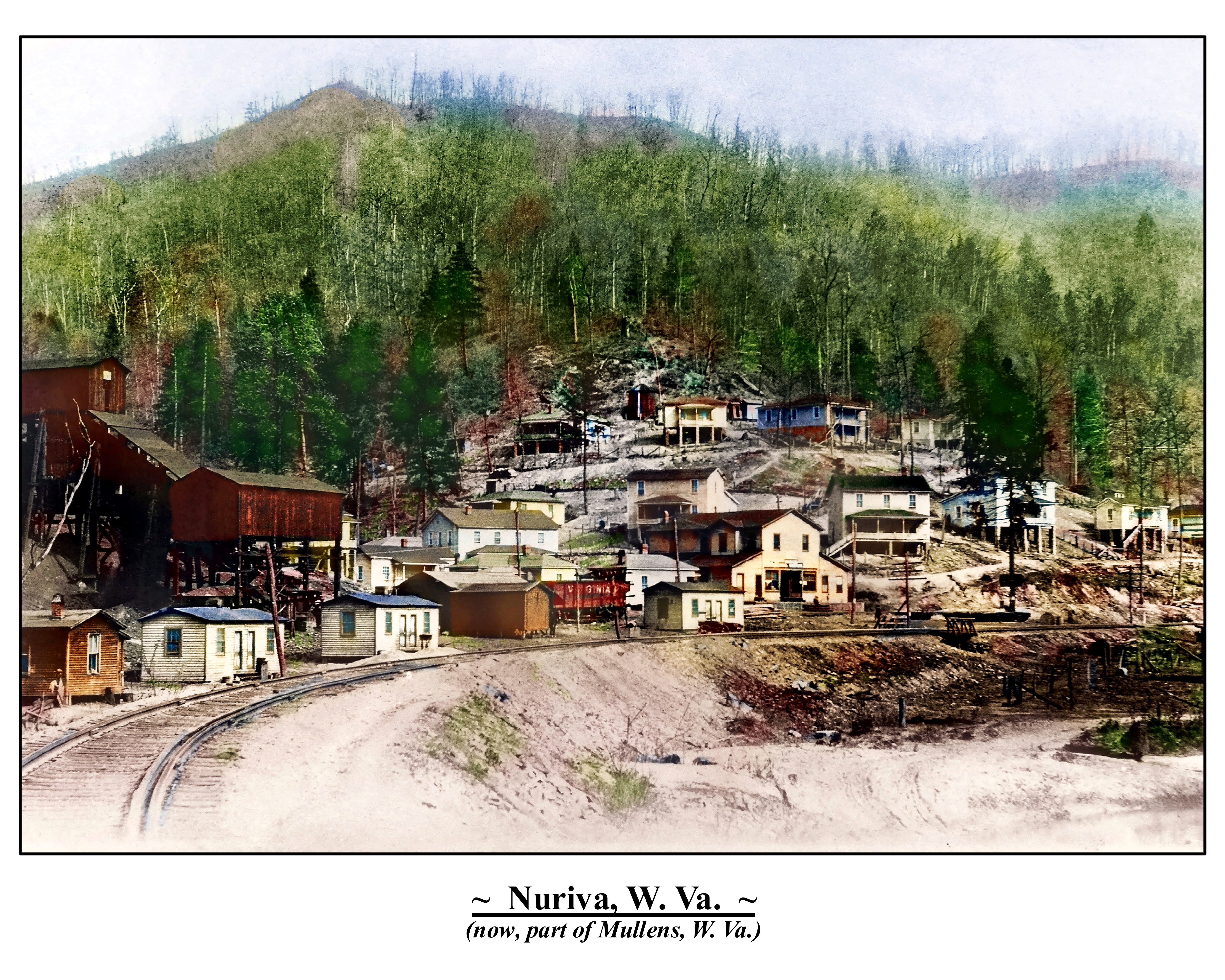 Nuriva, WV, circa 1920's.